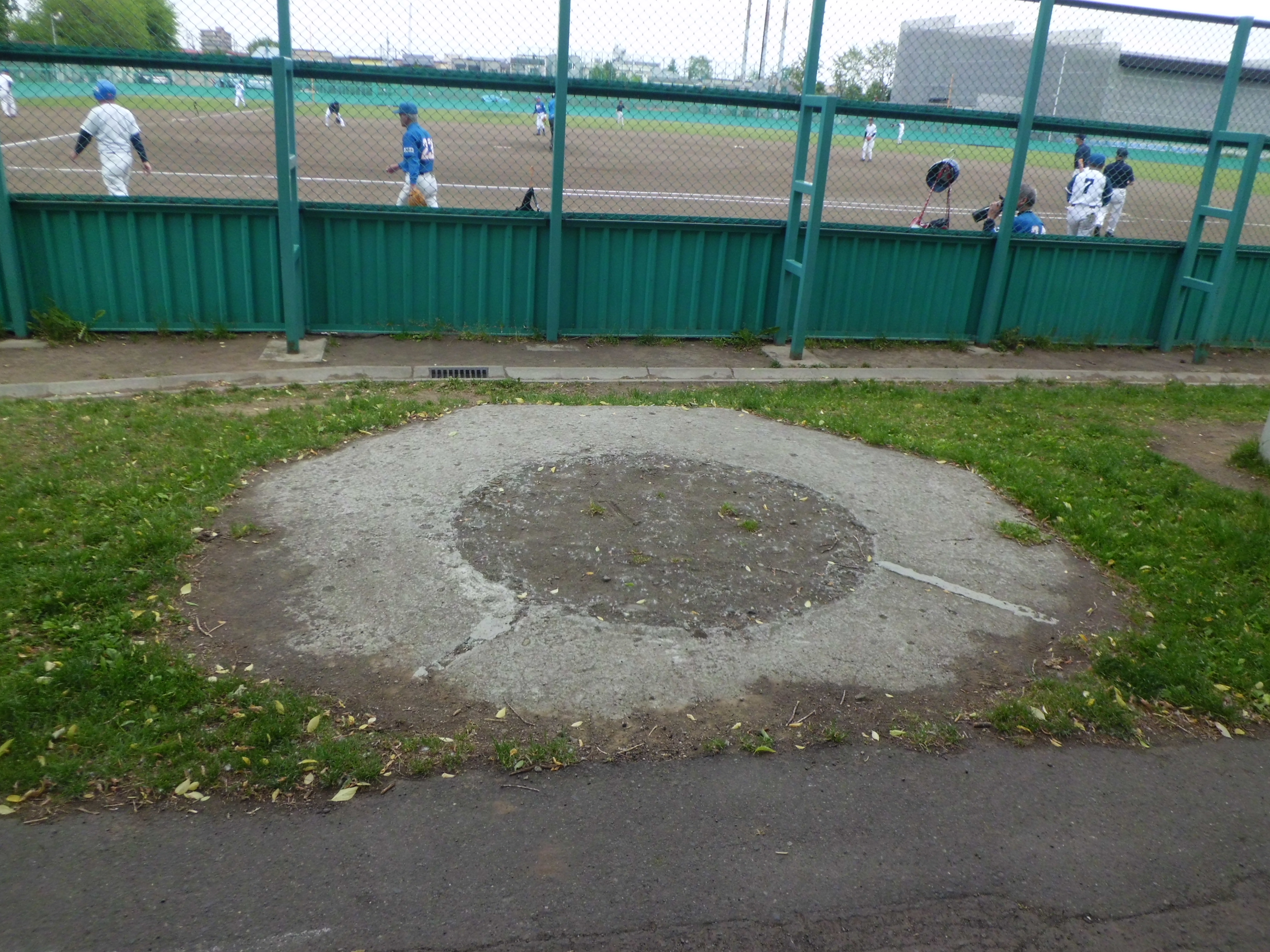 Base of Anti-aircraft Gun at Mikaho Park